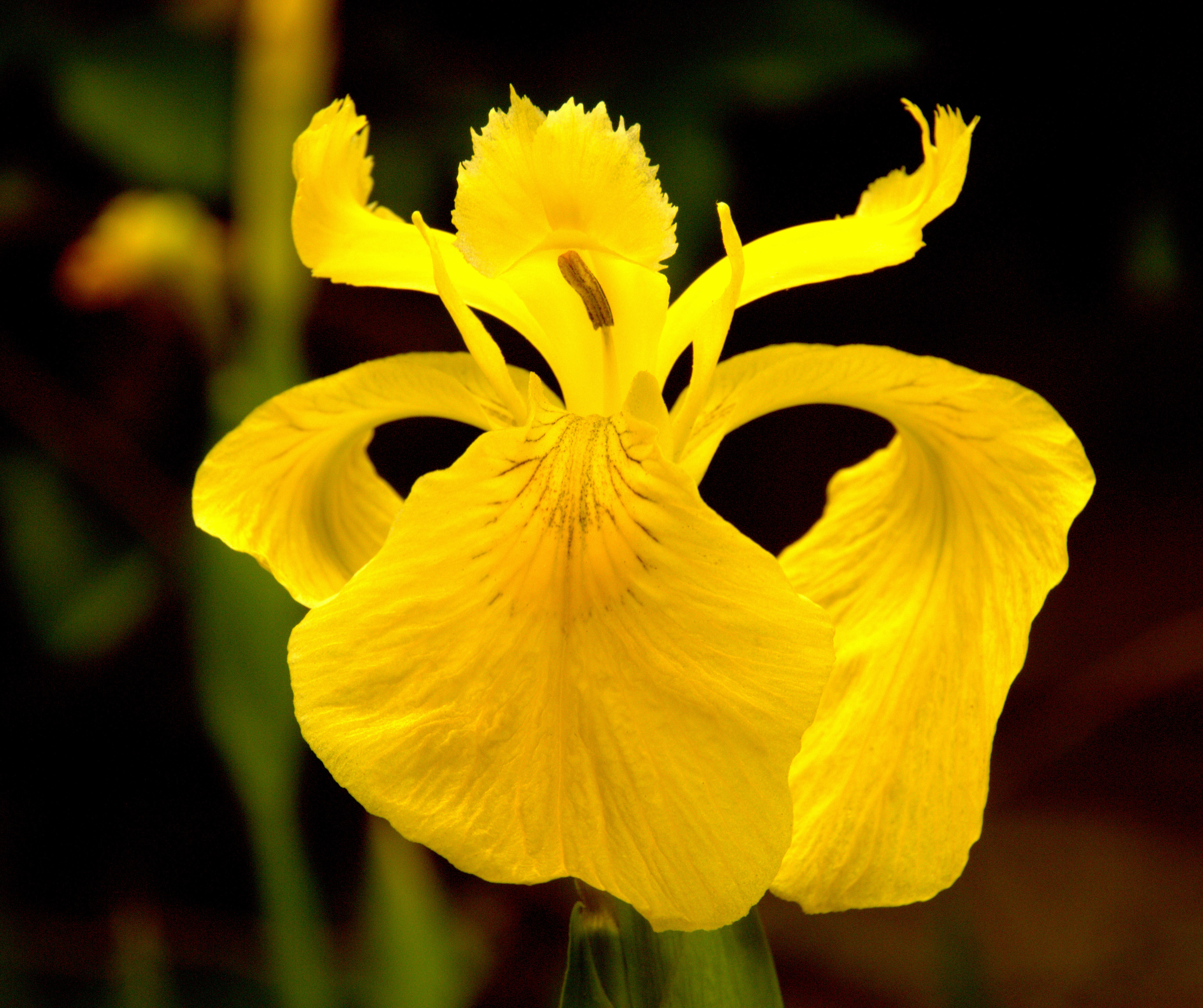 Iris pseudacorus (yellow flag, yellow iris, water flag, lever) flower